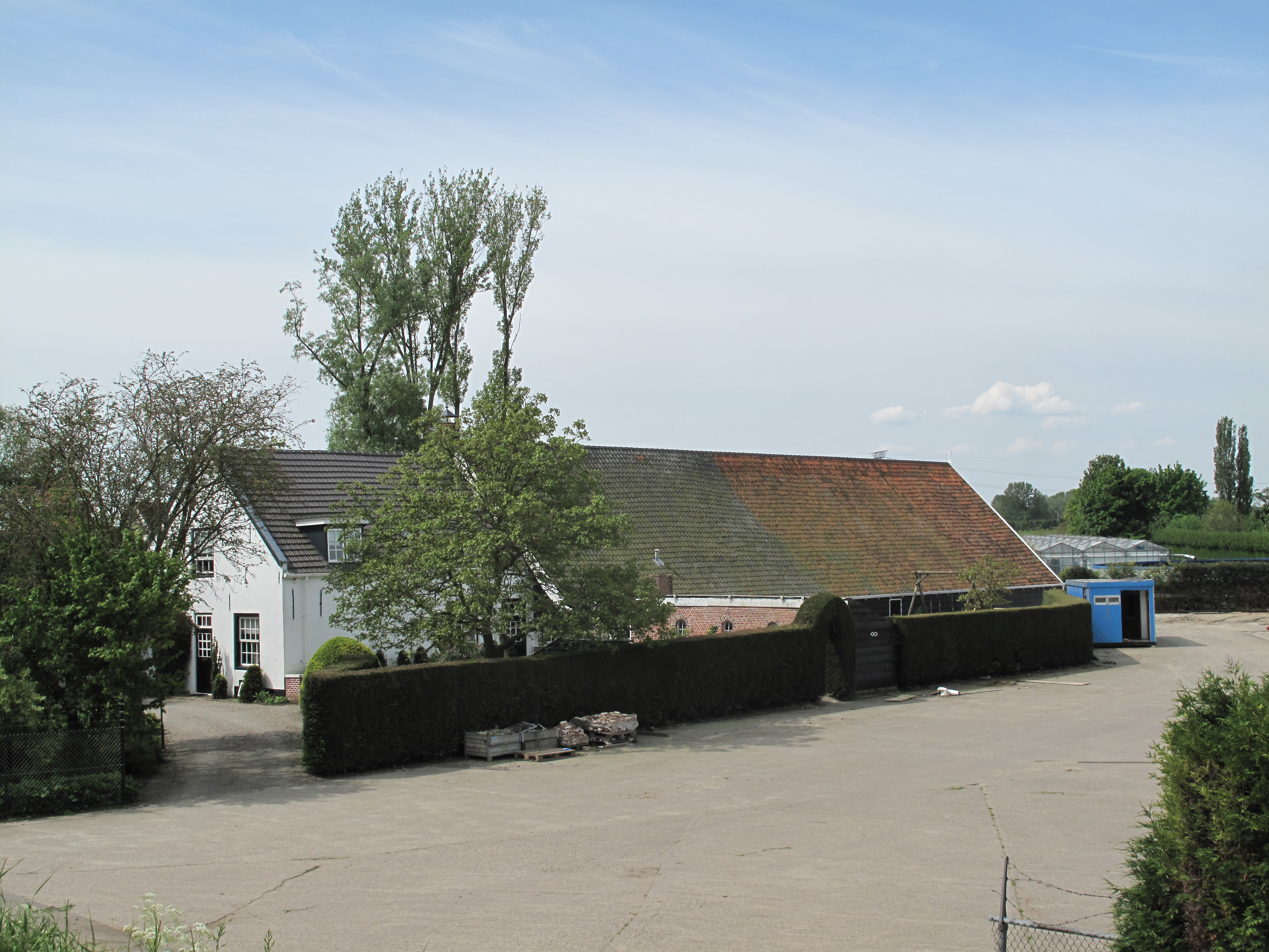 Oostdijk, monumental farmer house